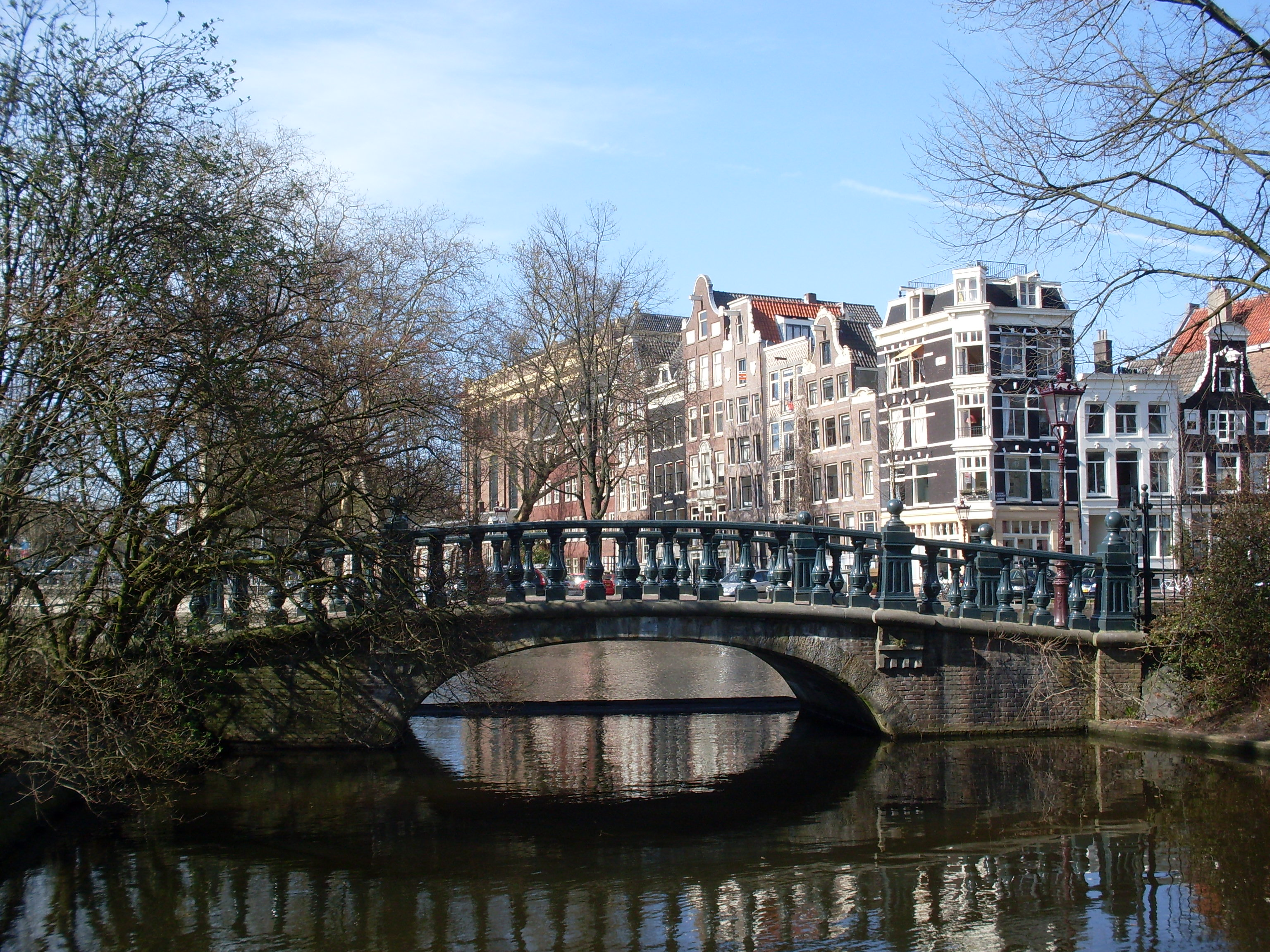 Brug 233